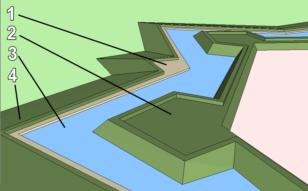 weapons locker as part of fortifications